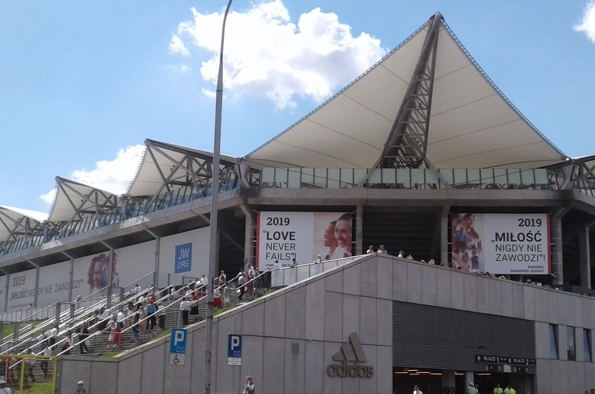 International Convention of Jehovah's Witnesses 2019 Warsaw, Poland